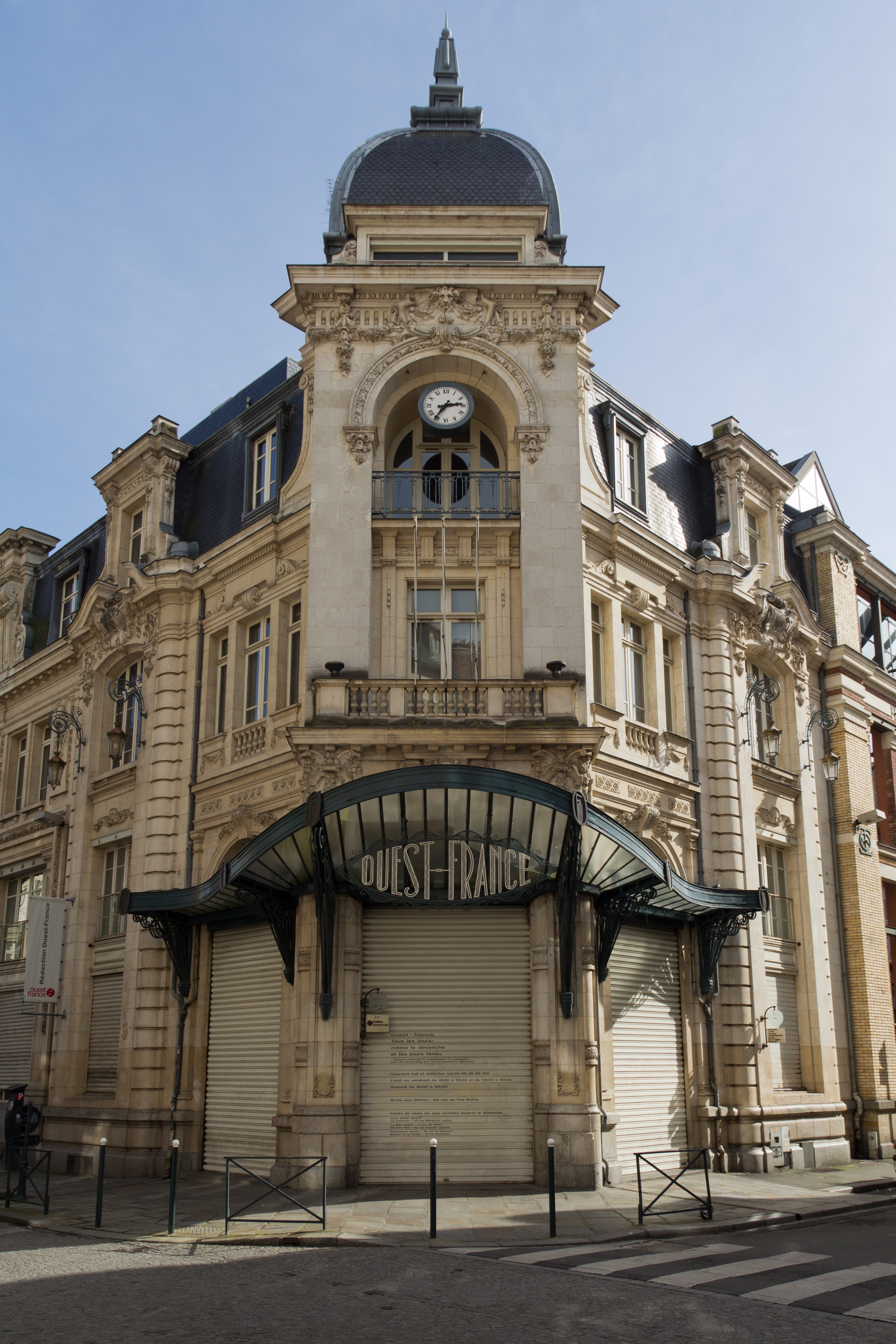 Former headquarters of Ouest France newspaper in Rennes.